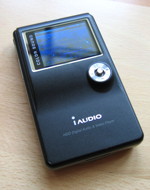 I took this picture